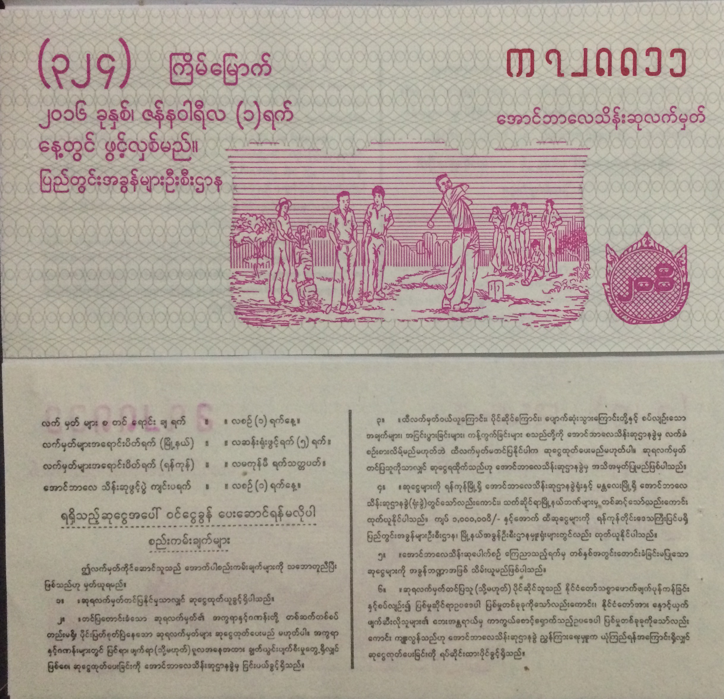 Myanmar Lottery tickets (Aungbalay) မြန်မာဘာသာ: မြန်မာထီလက်မှတ် (အောင်ဘာလေ)